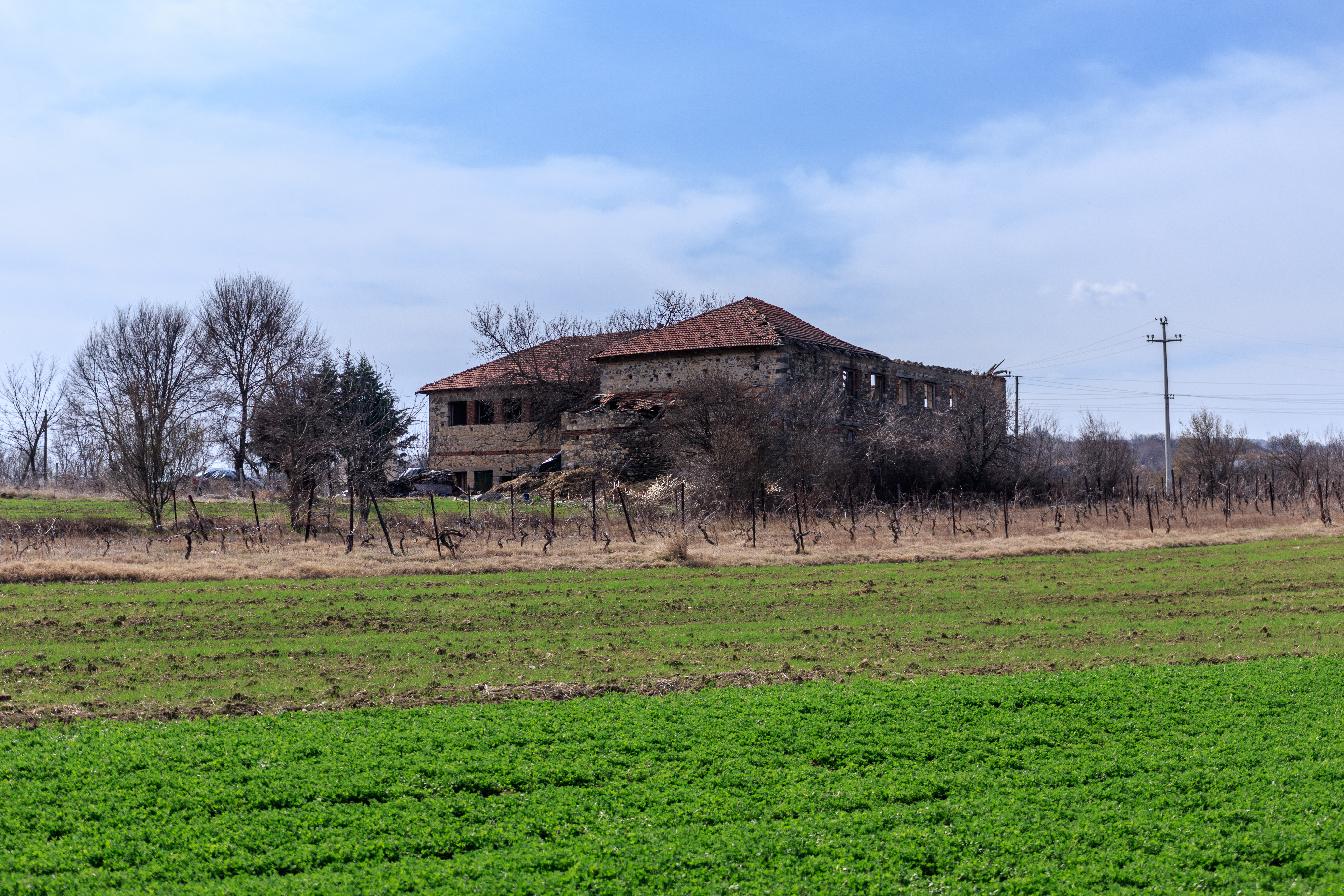 Old ruined building in the village Čelopek, Staro Nagoričane